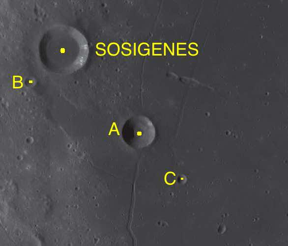 Part of the chart LAC-60 used for the presentation.